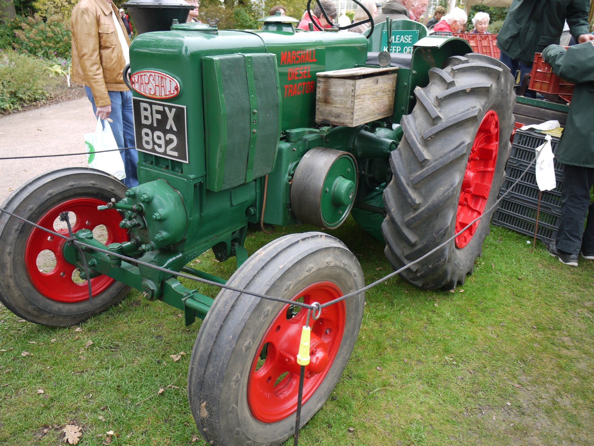 1942 Marshall tractor at RHS Wisley garden.